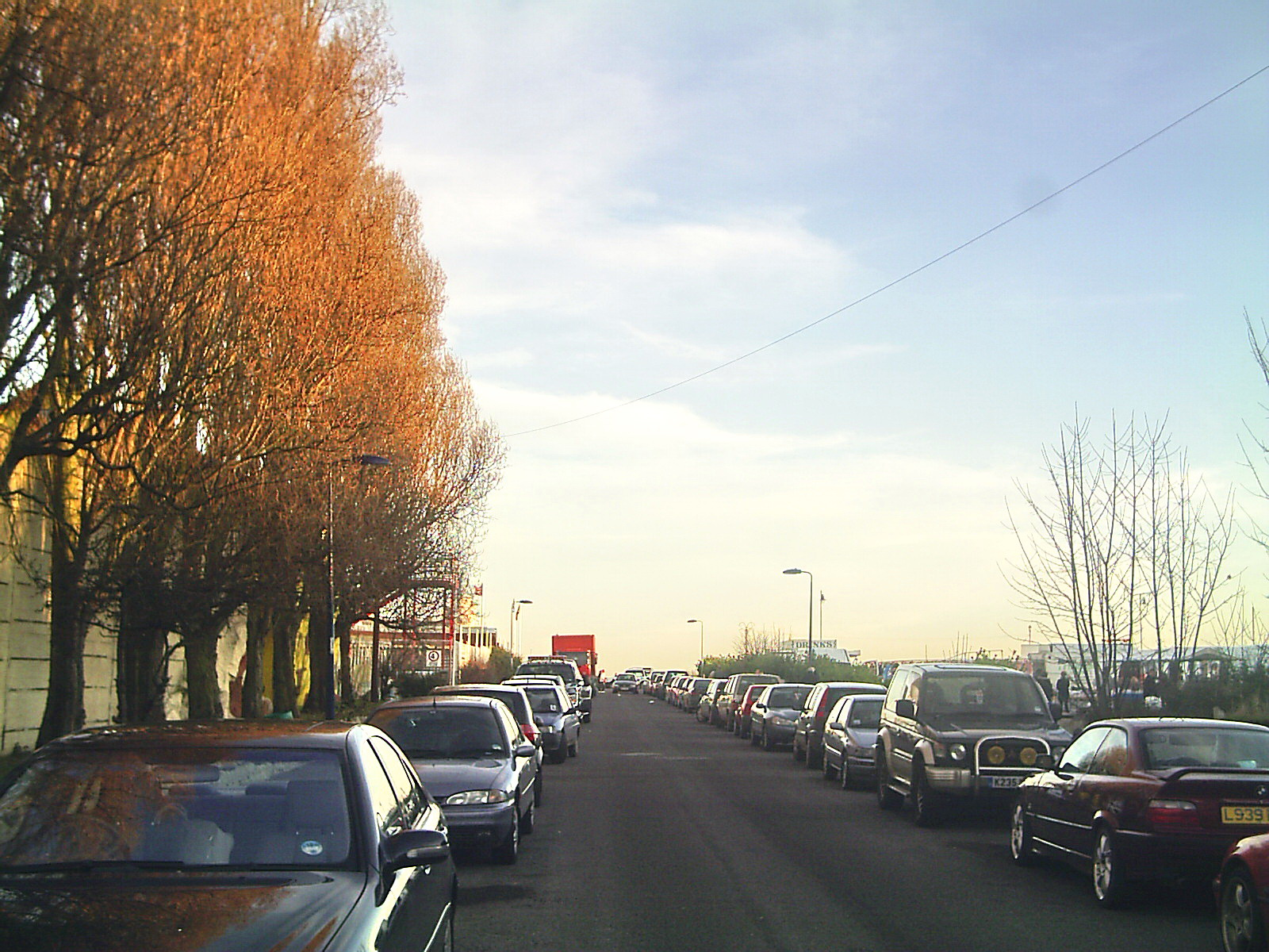 Micklegate Road, Felixstowe, Suffolk, UK.